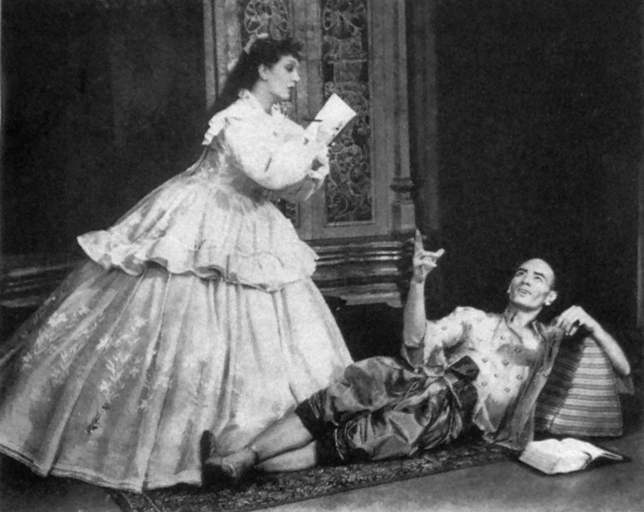 Gertrude Lawrence as Anna and Yul Brynner as the King, from a 1951 souvenir program for The King and I. Lacks any copyright notice, so it is no longer under copyright. Image can be found here.